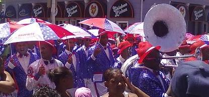 A troupe at the Kaapse Klopse festival, January 2011.